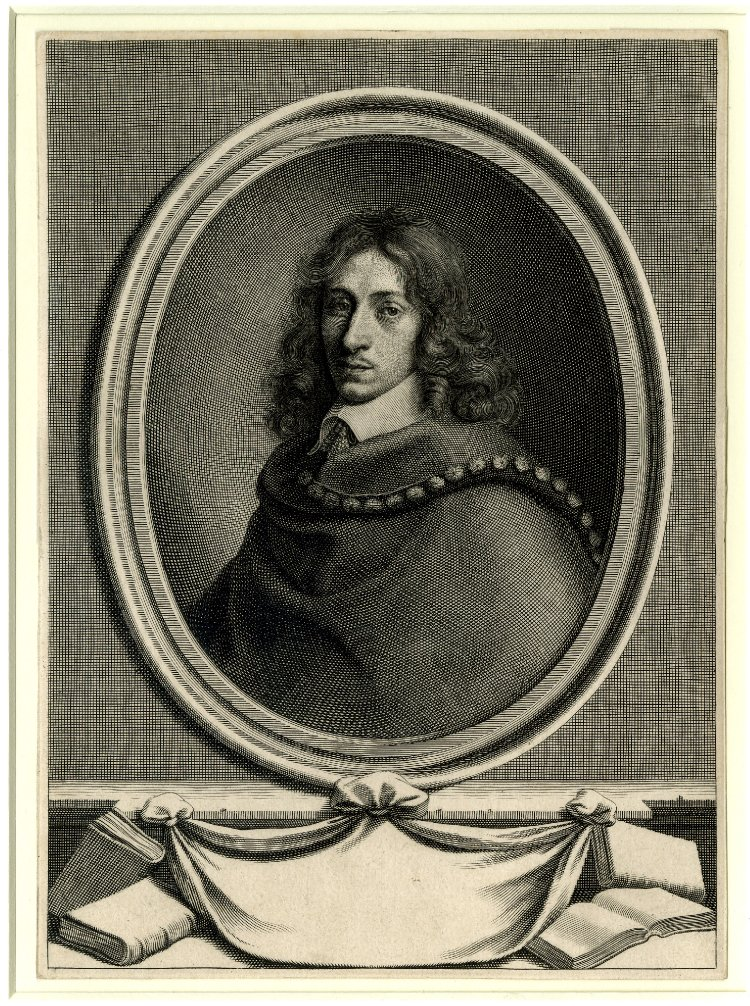 Portrait of John Evelyn, by the French printmaker and artist Robert Nanteuil. Engraving. Evelyn notes in his diary of 13 June 1650 of having paid a visit on Nanteuil, who made a copper print engraving of him. 242 mm x 174 mm. Courtesy of the British Museum, London.